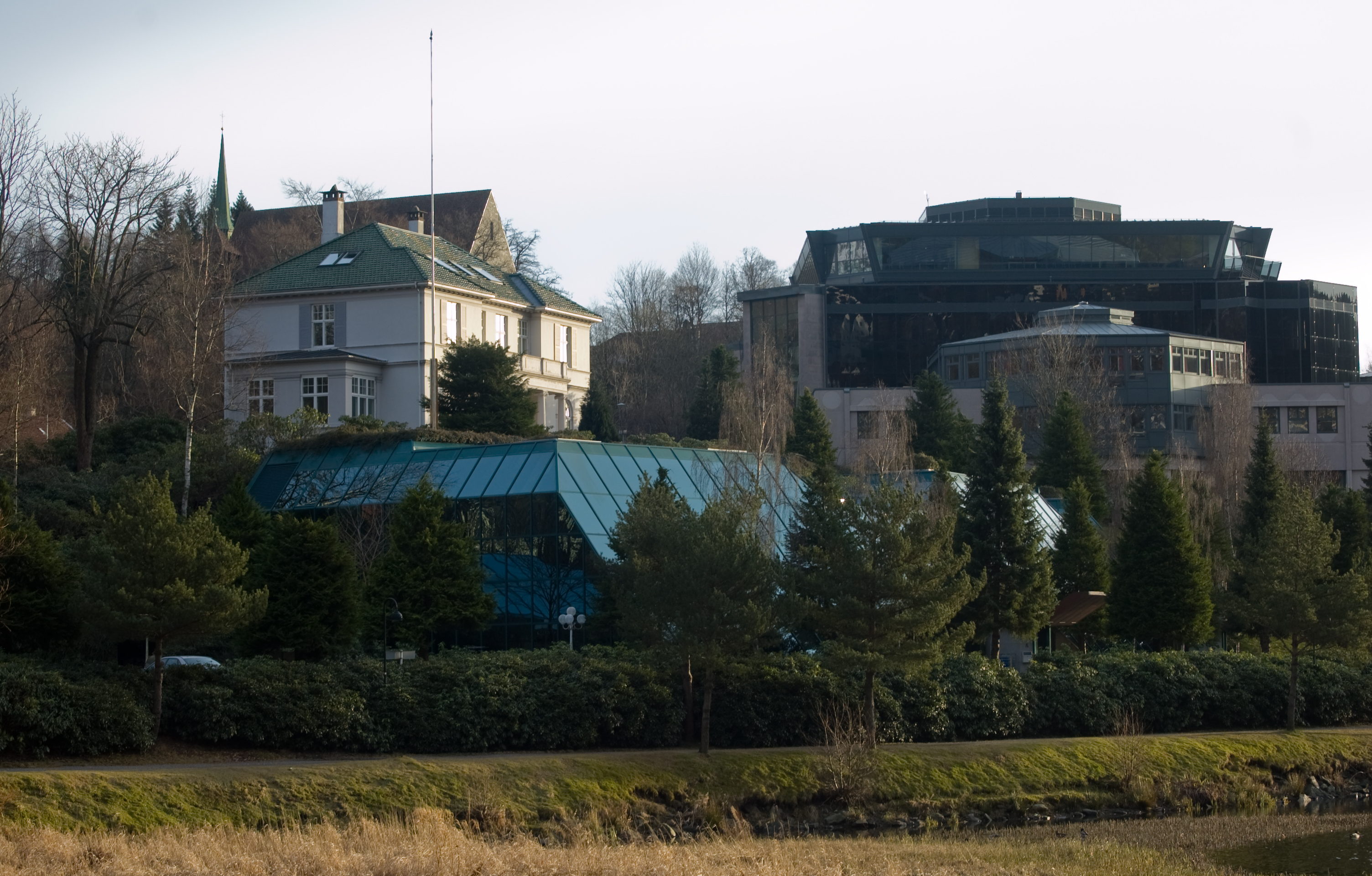 The headquarters of Odfjell SE by Kristianborgvannet in Bergen, Norway.